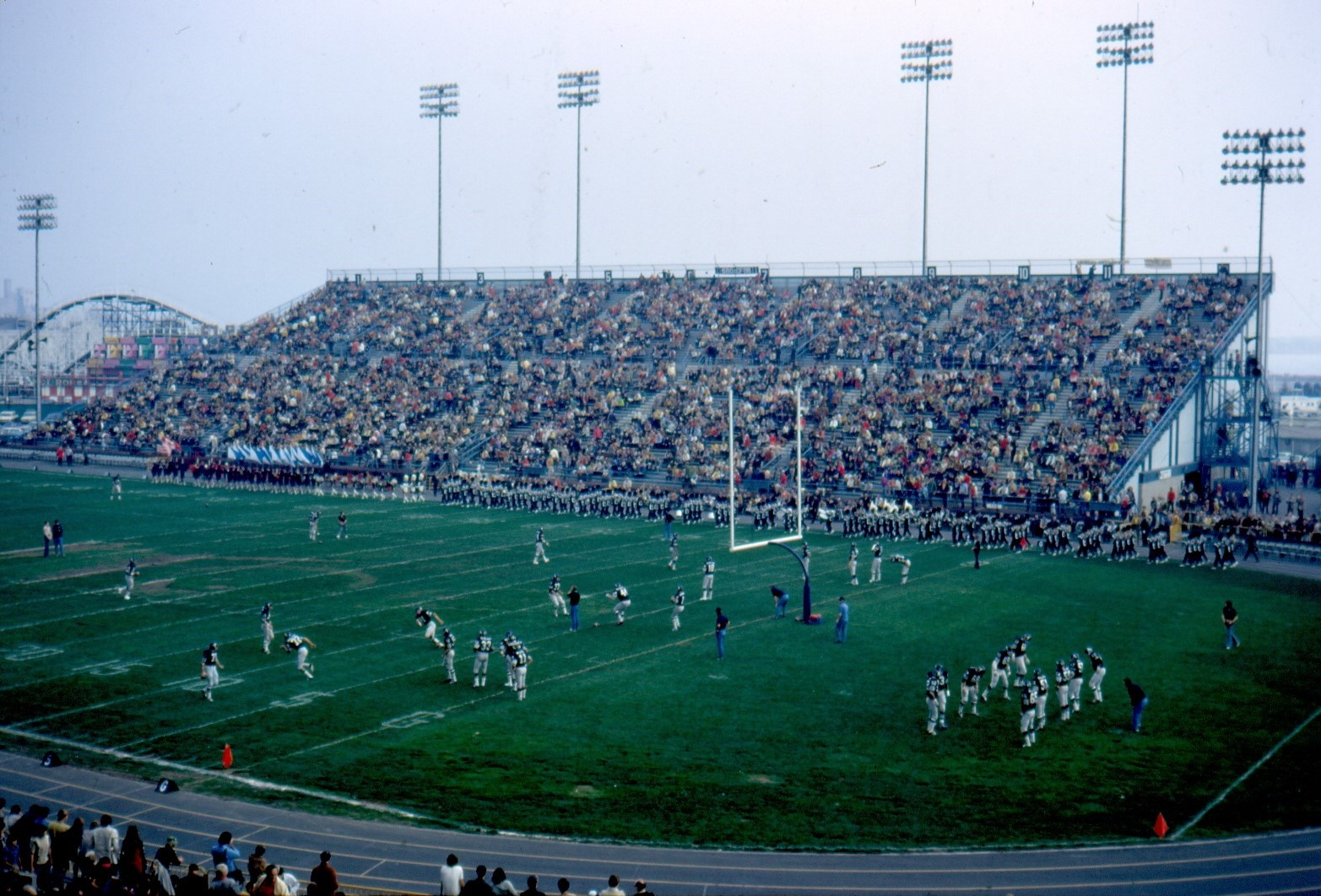 Toronto Argonauts vs Hamilton Ti-Cats at Exhibition Stadium Fall of 1971